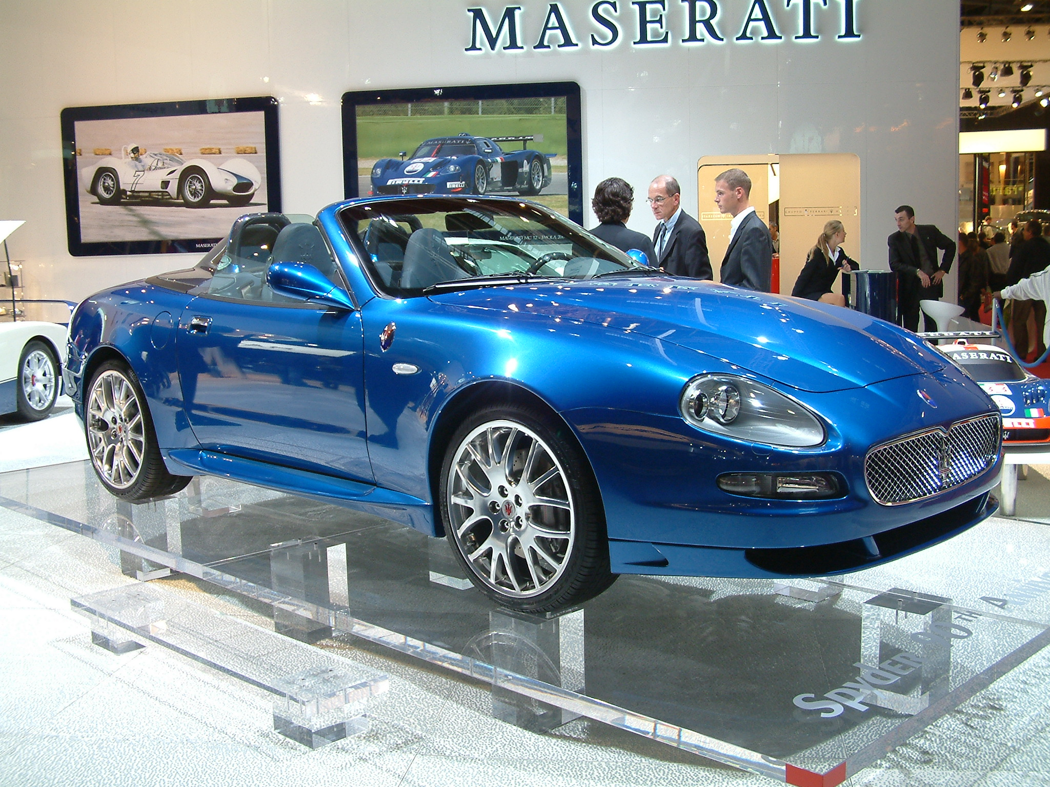 Blue 2004 Maserati Spyder 90th Anniversary